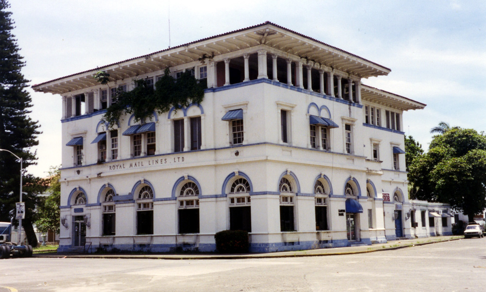 Almost unchanged for a century, the Royal Mail Lines bldg (#1104) in the heart of Cristobal's "Steamship Row."